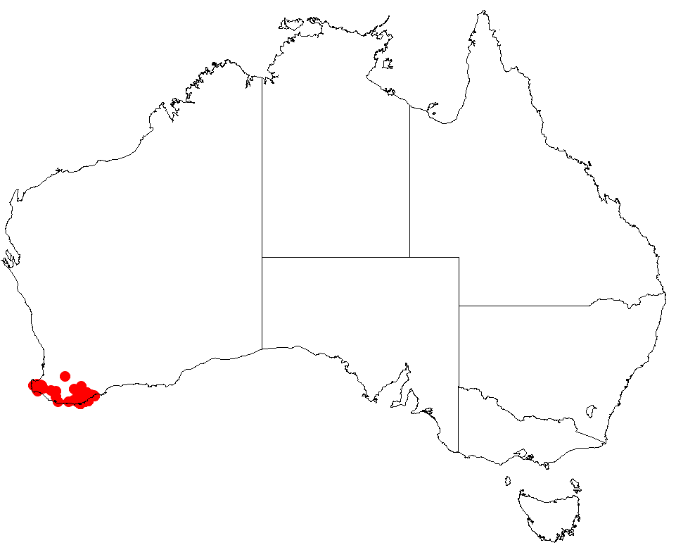 Hakea lasiantha Occurrence data downloaded from Australasian Virtual Herbarium on 22 November 2018 using